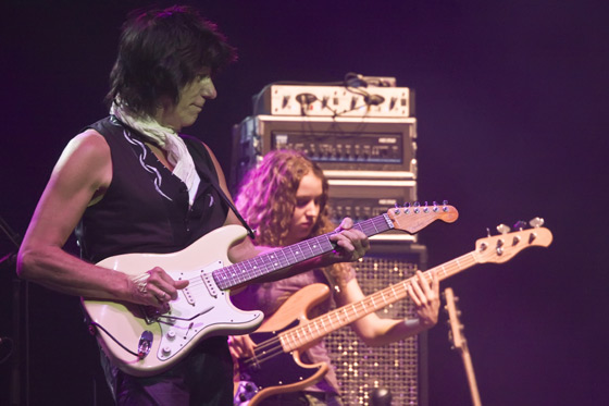 Jeff Beck at the Palais, Melbourne, Australia 26th January 2009